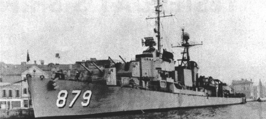 The U.S. Navy destroyer USS Leary (DD-879) at Venice, Italy.